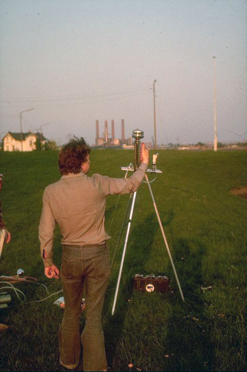 Measuring heavy metal pollution in the air of Hamburg.